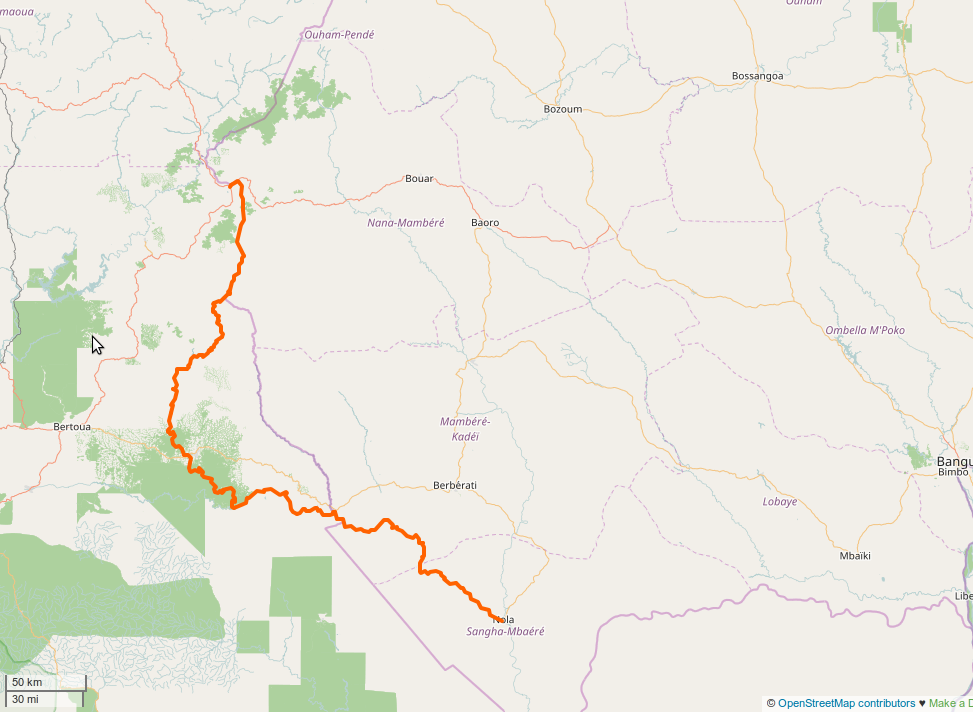 Kadei River in Cameroon, a tributary of the Sangha River, with OSM. This map may be incomplete, and may contain errors. Don't rely solely on it for navigation.